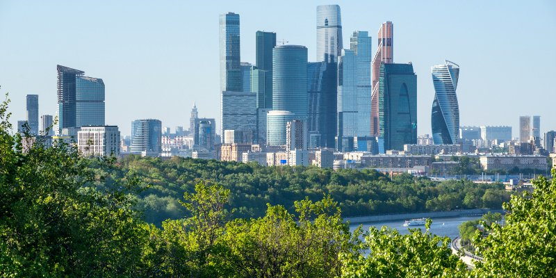 Moscow International Business Center